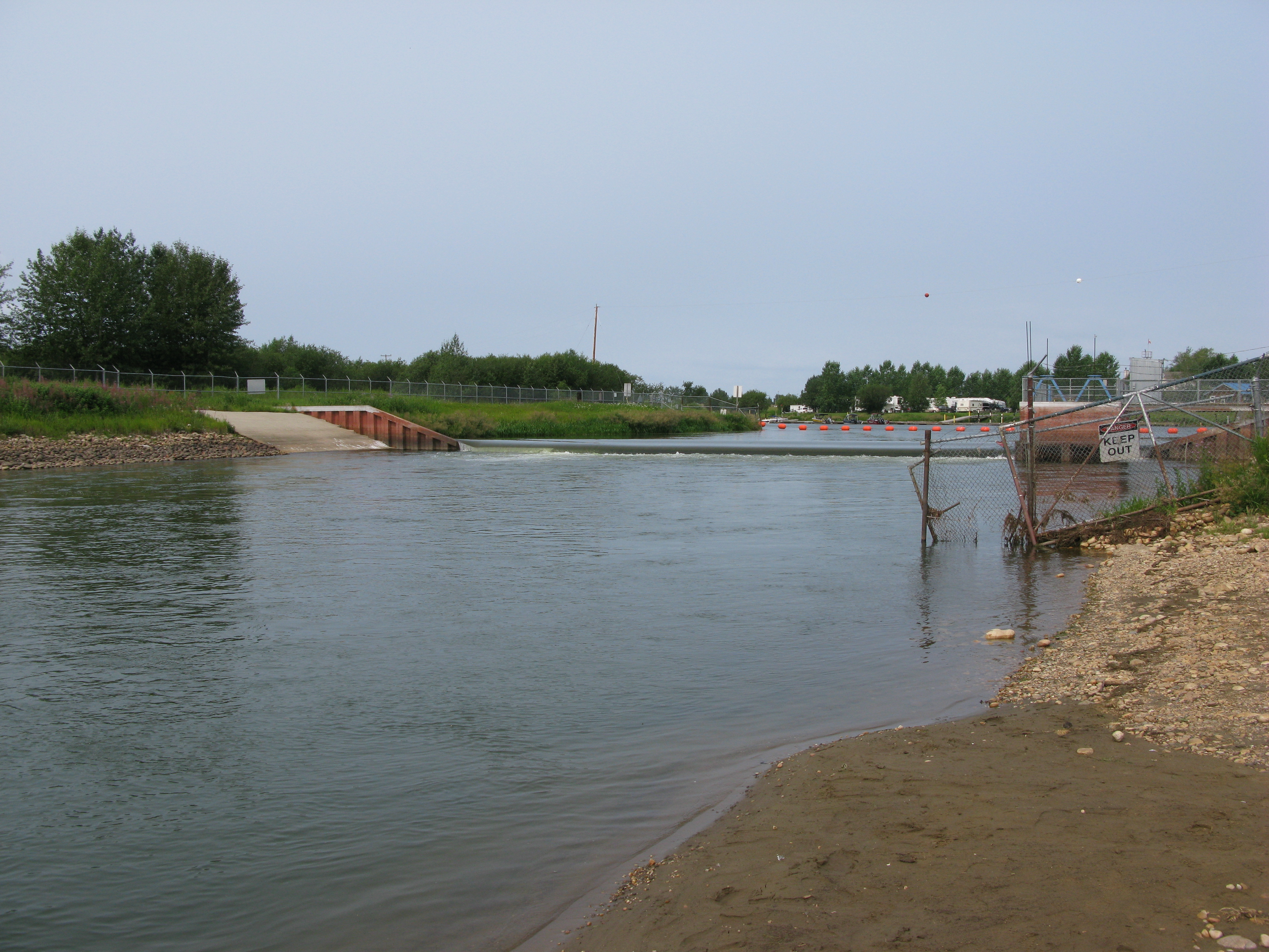 Weir on the Lesser Slave River, near Slave Lake, Alberta.